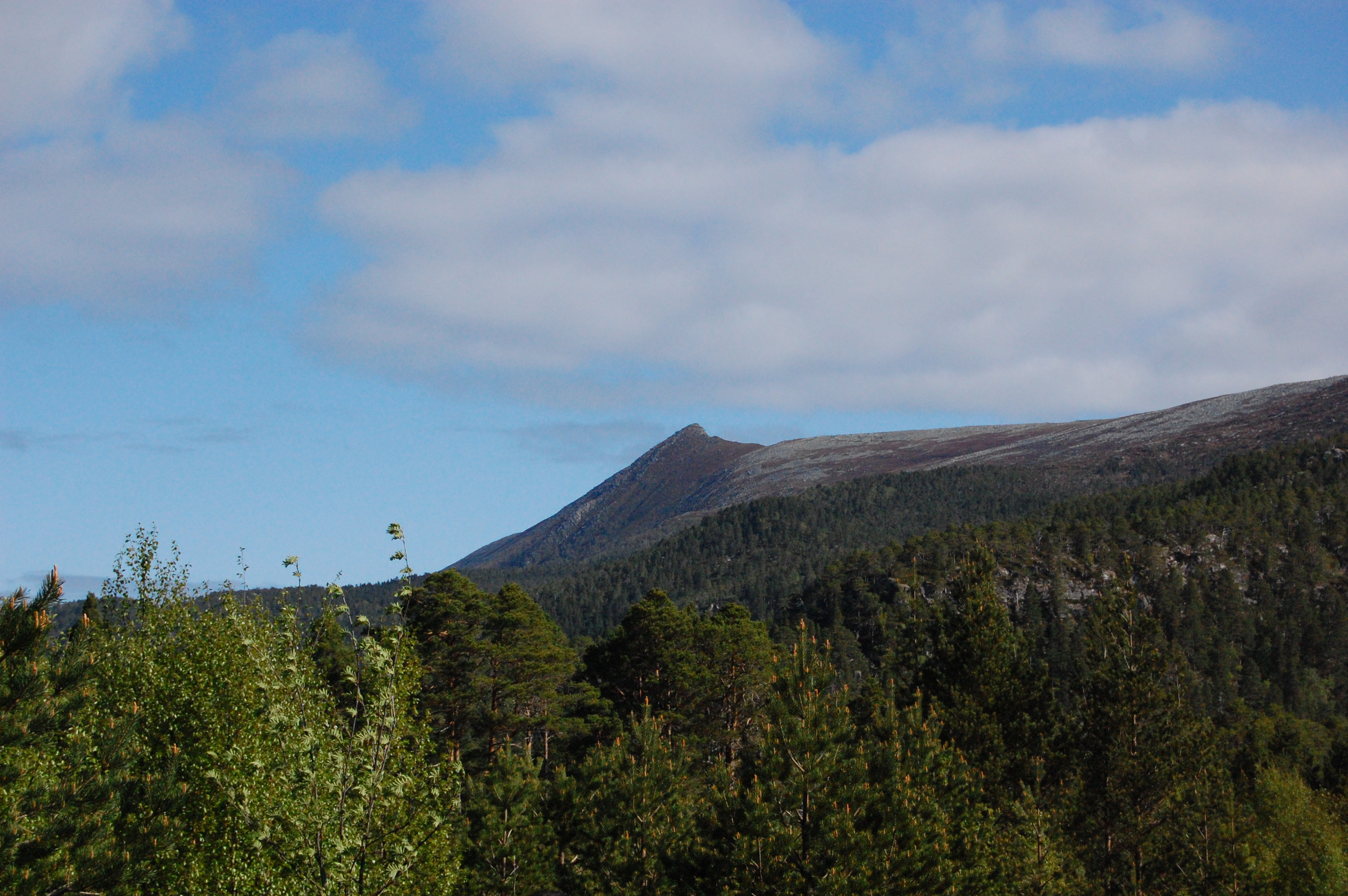 The mountain Knubben on Tustna island, Aure, Møre og Romsdal.